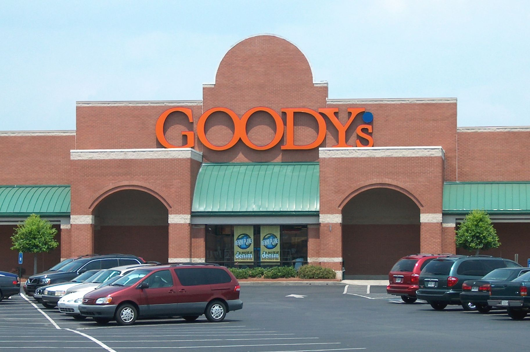 Goody's Family Clothing Store #10 in Rome taken by Cculber007 on August 7, 2006. This Rome store is closing on February 28, 2009.